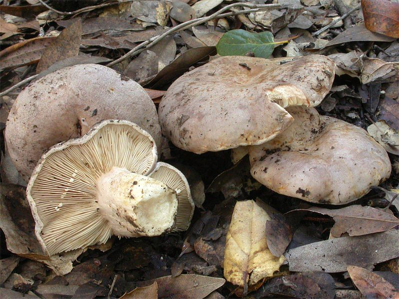 The mushroom Lactarius argillaceifolius var. megacarpus. Specimen photographed in Hayward, Alameda Co., California.